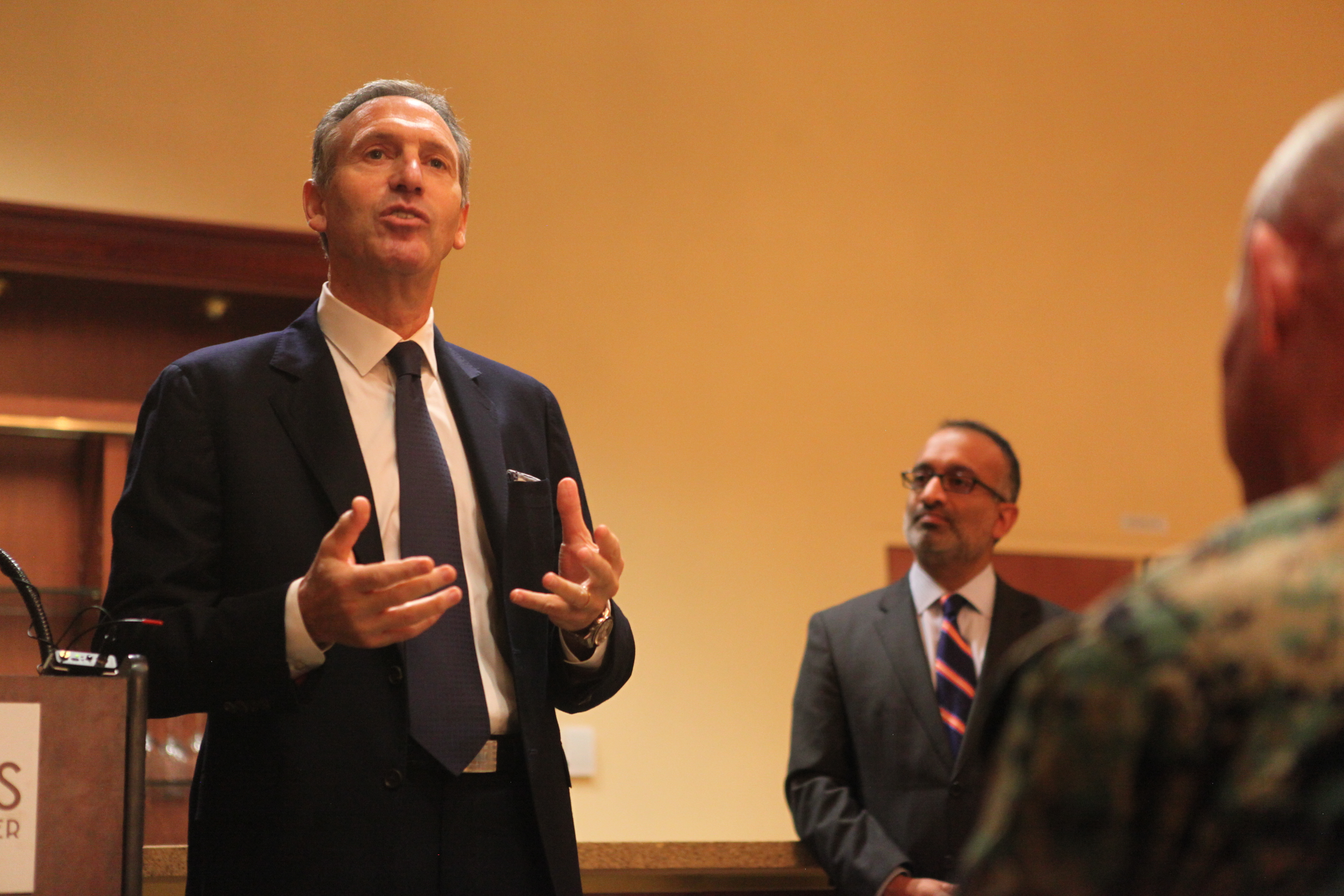 Howard Schultz, the chief executive officer of Starbucks, answered questions from Marines and Sailors shortly after delivering a speech about his book, “For Love of Country,” during his visit to Marine Corps Base Camp Pendleton, Calif., Nov. 13, 2014. After his speech, Schultz held a book-signing event at the Marine Corps Exchange. Unit: I Marine Expeditionary Force DVIDS Tags: Marine Corps Base Camp Pendleton; U.S. Marine Corps; Combat correspondent; I MEF; 1st Marine Division; I Marine Expeditionary Force; sailors; Marines; Calif.; Del Mar Area; Lance Cpl. April Price; Starbucks CEO